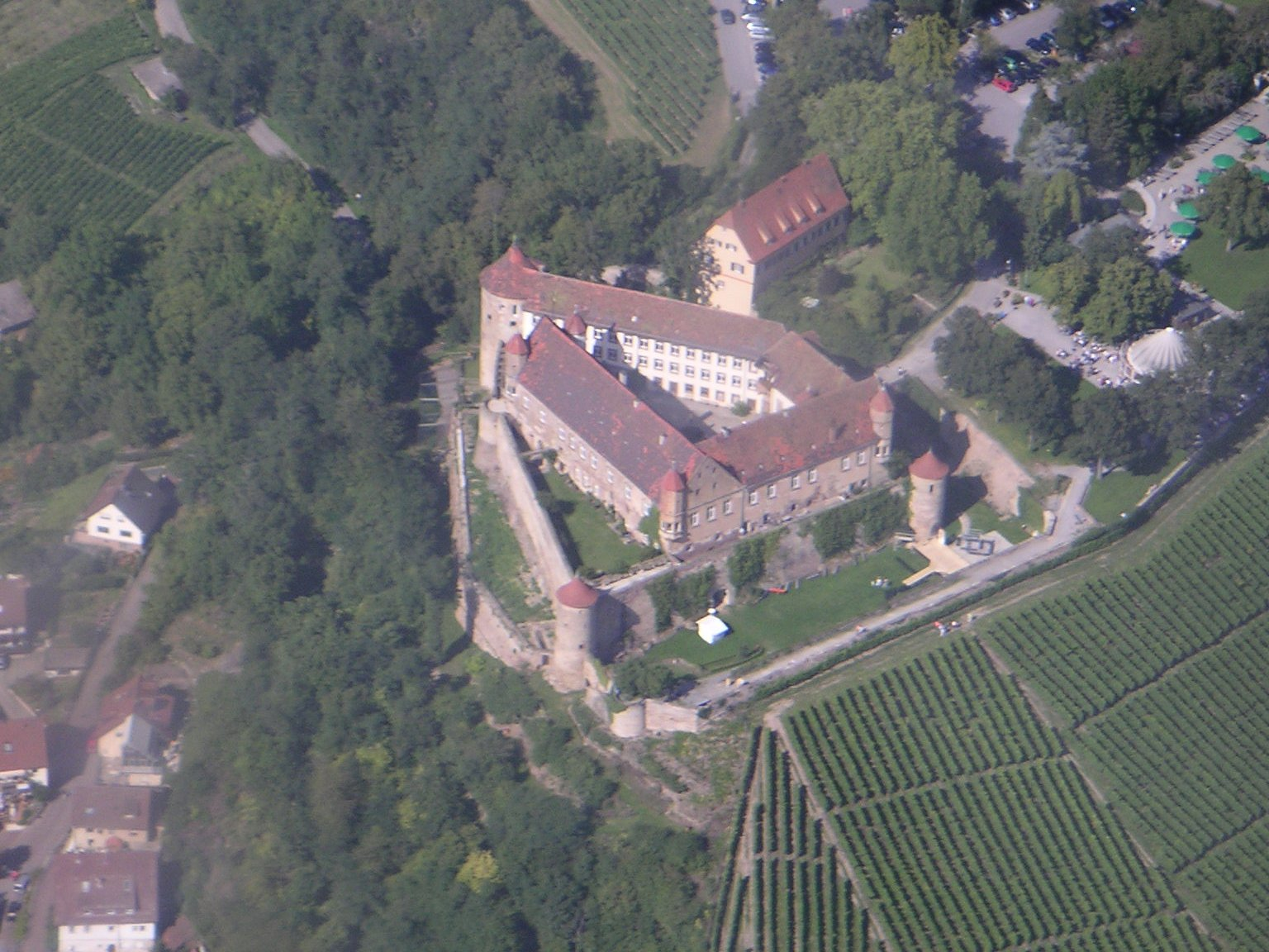 Aerial view of castle Stettenfels.